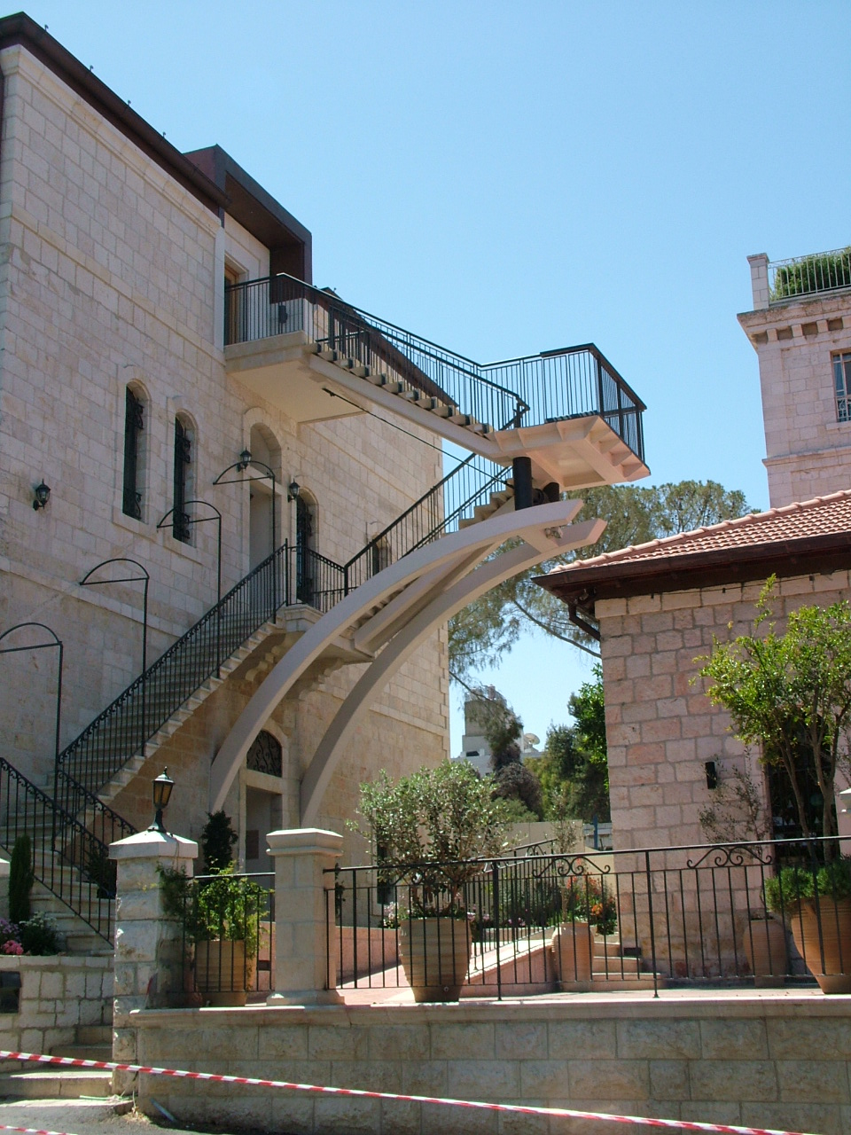 Jerusalem, American Colony Hotel